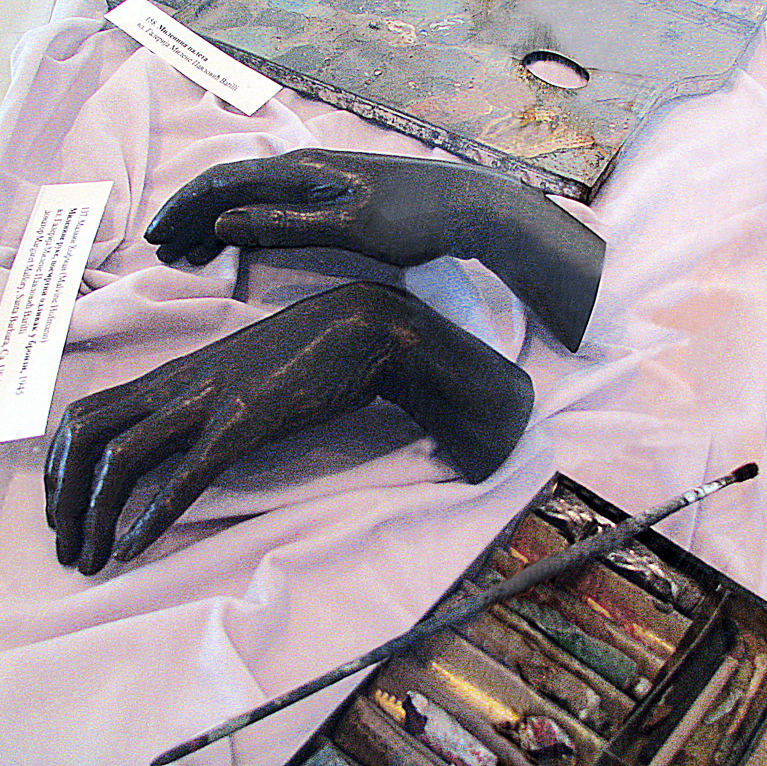 Hands of Milena Pavlović Barili 1945